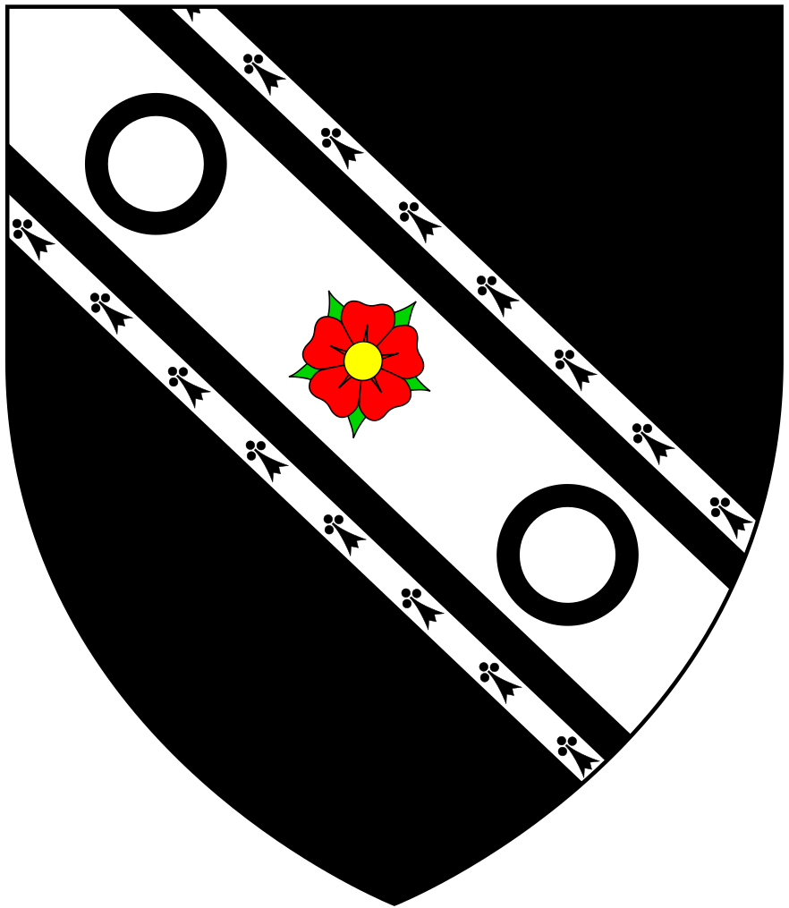 Arms of Rowley-Conwy, Baron Langford (Peerage of Ireland): Sable, on a bend argent cotised ermine a rose gules barbed and seeded proper between two annulets of the first (Conwy) (Source: Kidd, Charles, Debrett's peerage & Baronetage 2015 Edition, London, 2015, p.P720)